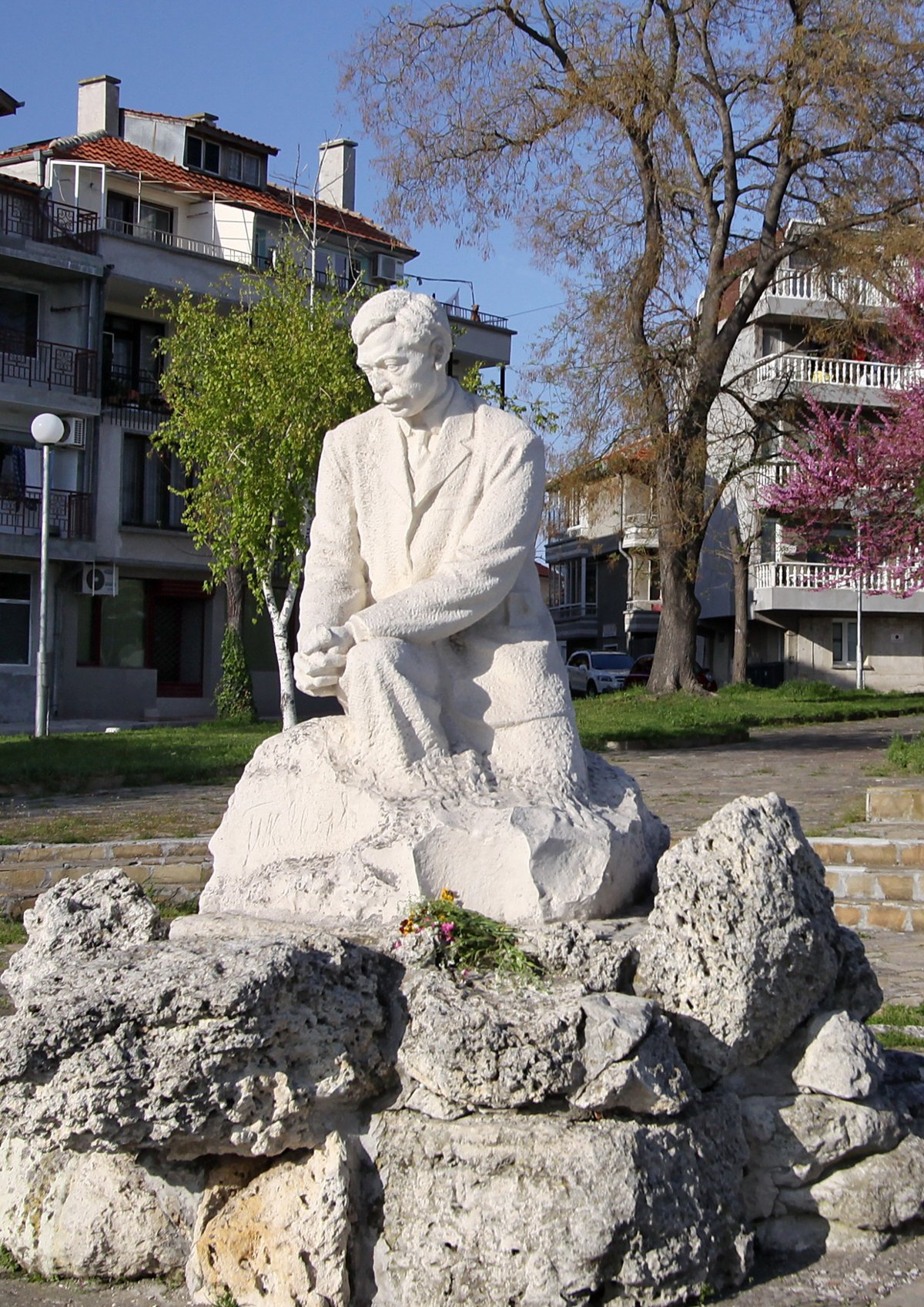 Monument of the poet Iavorov - Pomorie